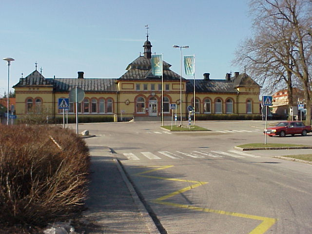 Photo: Bengt Olof Åradsson Location: Flen, small city 111 km south west of Stockholm